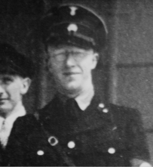 SS-Obersturmbannführer Bruno Müller or Brunon Müller-Altenau, Senior Storm Unit Leader in charge of operation Sonderaktion Krakau against the Polish professors in occupied Kraków, Poland